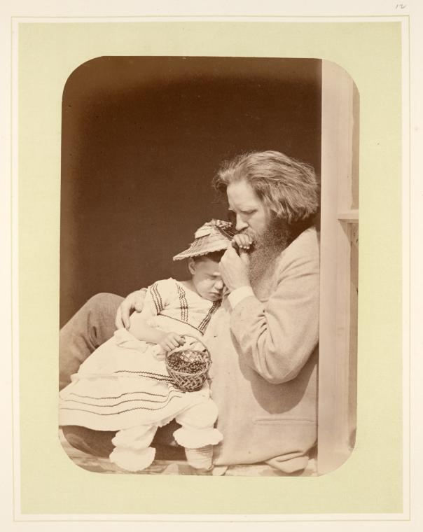 "A father and child" by Andrey Karelin (comment by user:NVO - could it be a self-portrait? see Karelin's own photo).